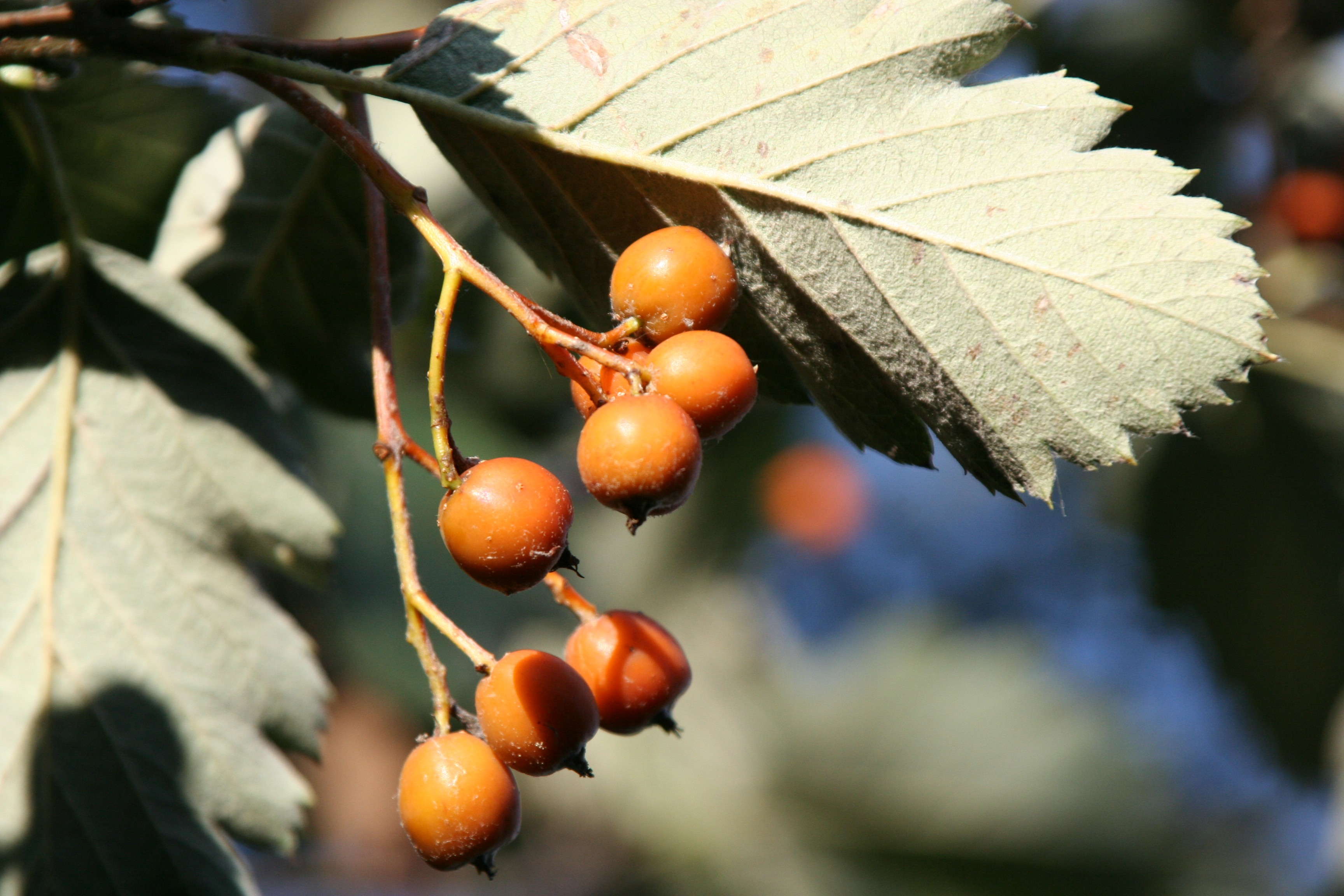 Fruit of the Swedish Whitebeam (Sorbus intermedia), photographed in Weinsberg